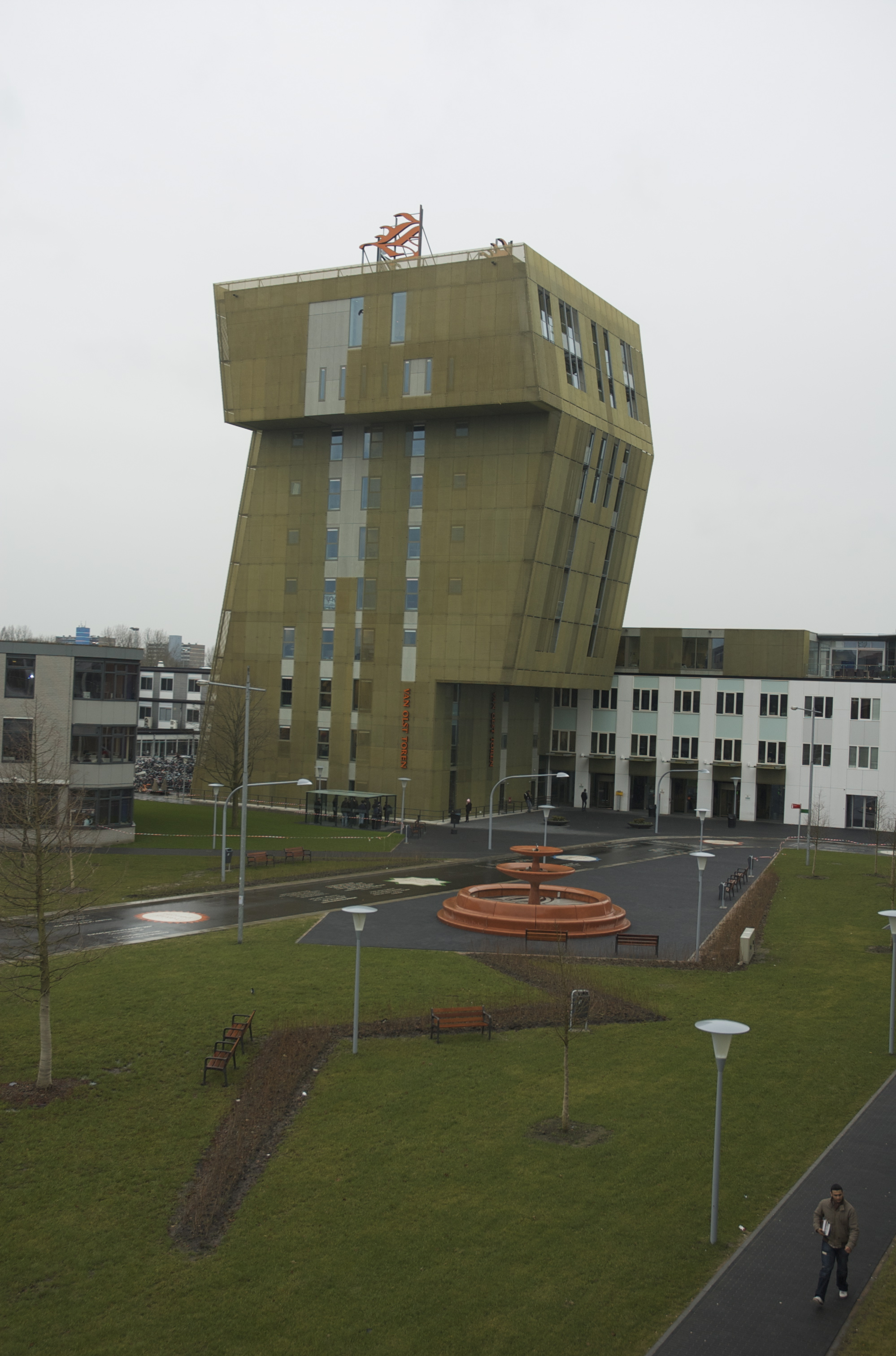 The Hanze Tower, located at the Zernike Complex in Groningen. The tower belongs to the Hanze University Groningen